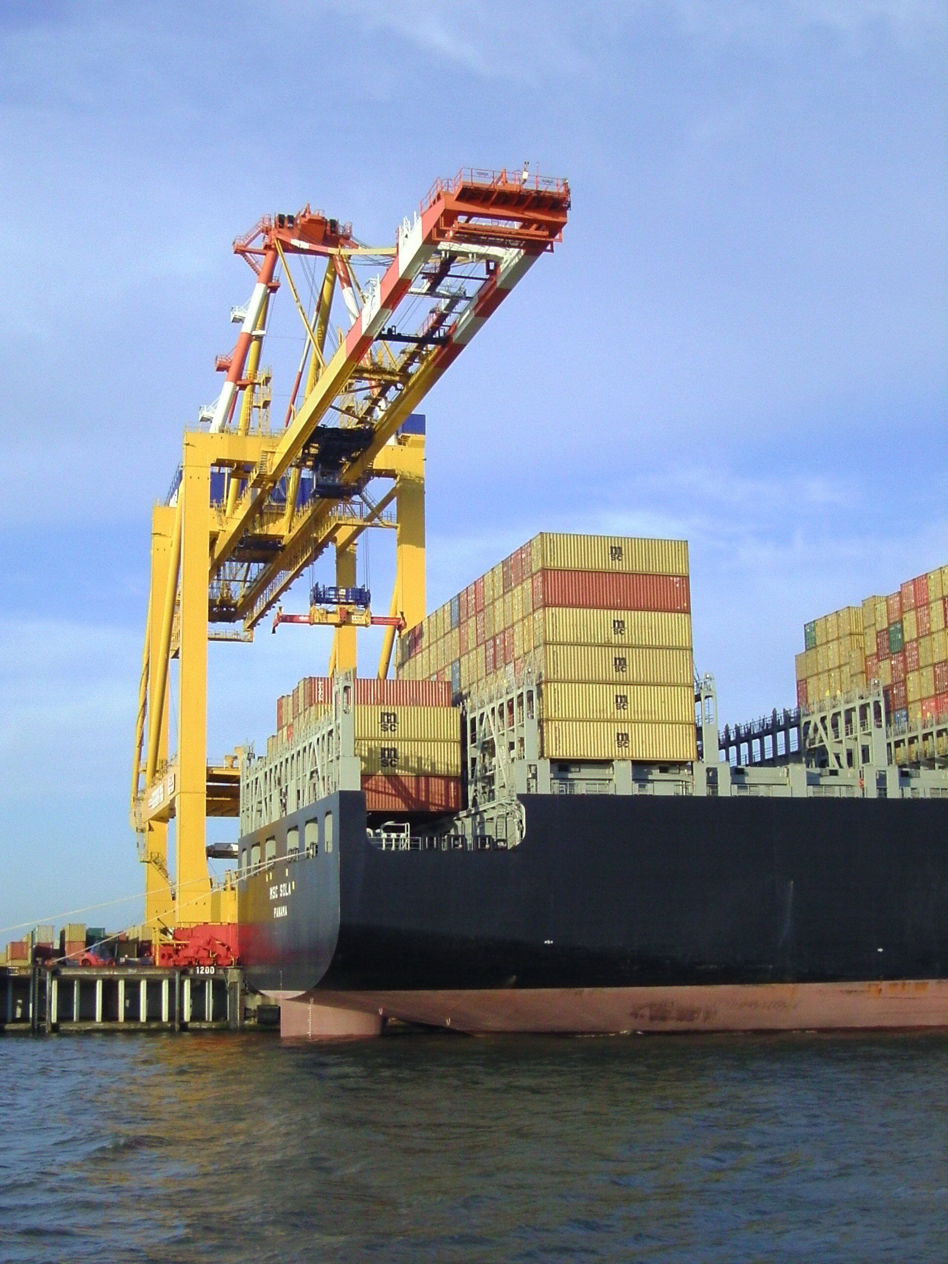 Containers are being loaded on the container ship MSC Sola at the container terminal of Bremerhaven in Germany